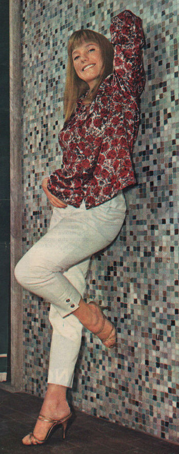 American-born Italian choreographer and vocalist Elena Sedlak (born 1938) photographed for the Italian magazine Sorrisi e Canzoni